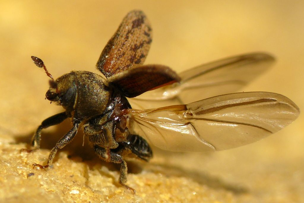 Hylesinus varius